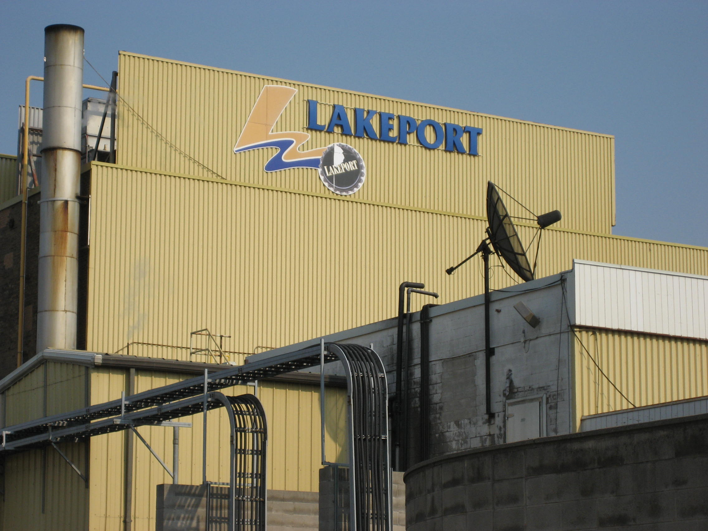 Lakeport Brewery, Burlington & Wellington Streets, Hamilton, Ontario